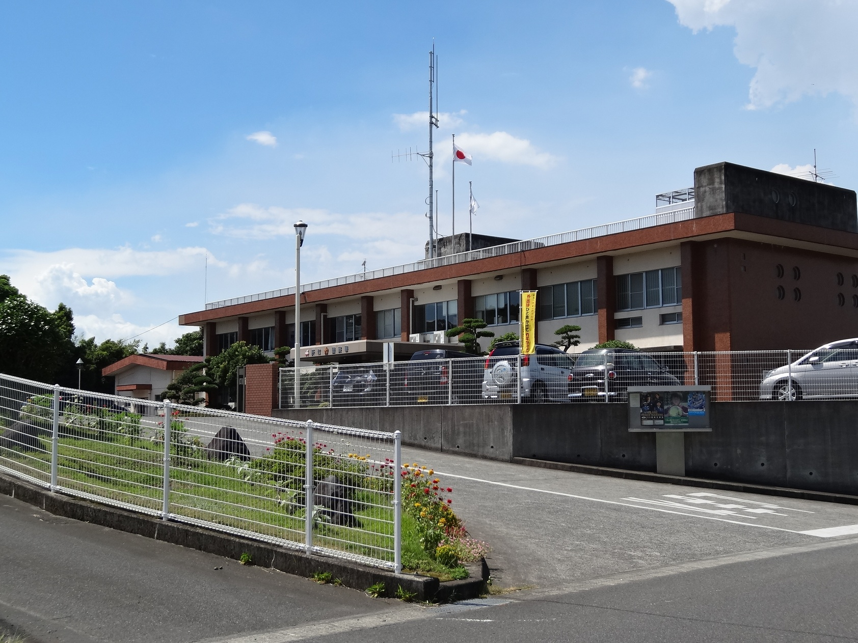 Kimotsuki Police Station (Kimotsuki Town, Kagoshima, Japan)